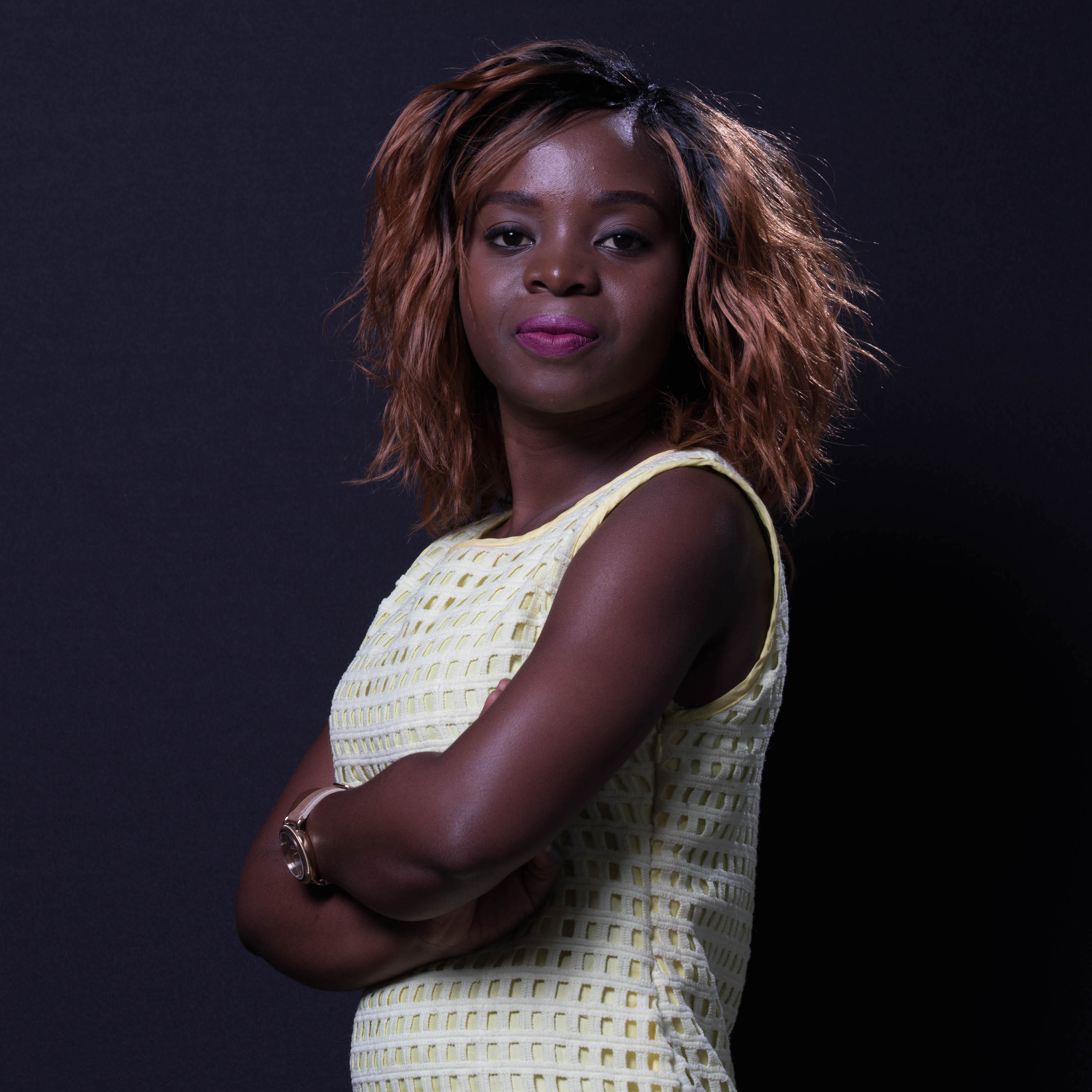 Memory Banda is a Malawian girls’ rights activist who led a national grassroots campaign that culminated with a ban on child marriage in Malawi.